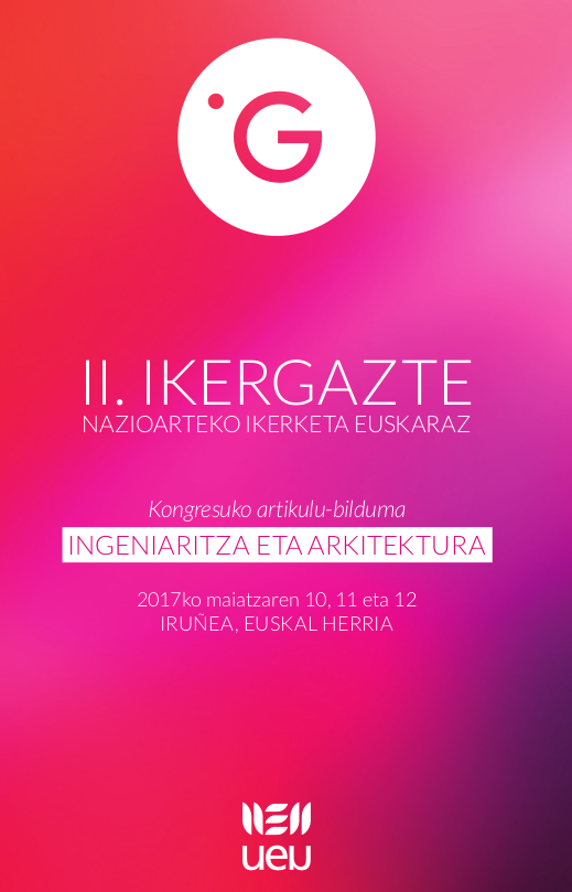 Proceedings of the Ikergazte Congress, Iruñea, 2017. Papers on PhD thesis work in Basque of young researchers.